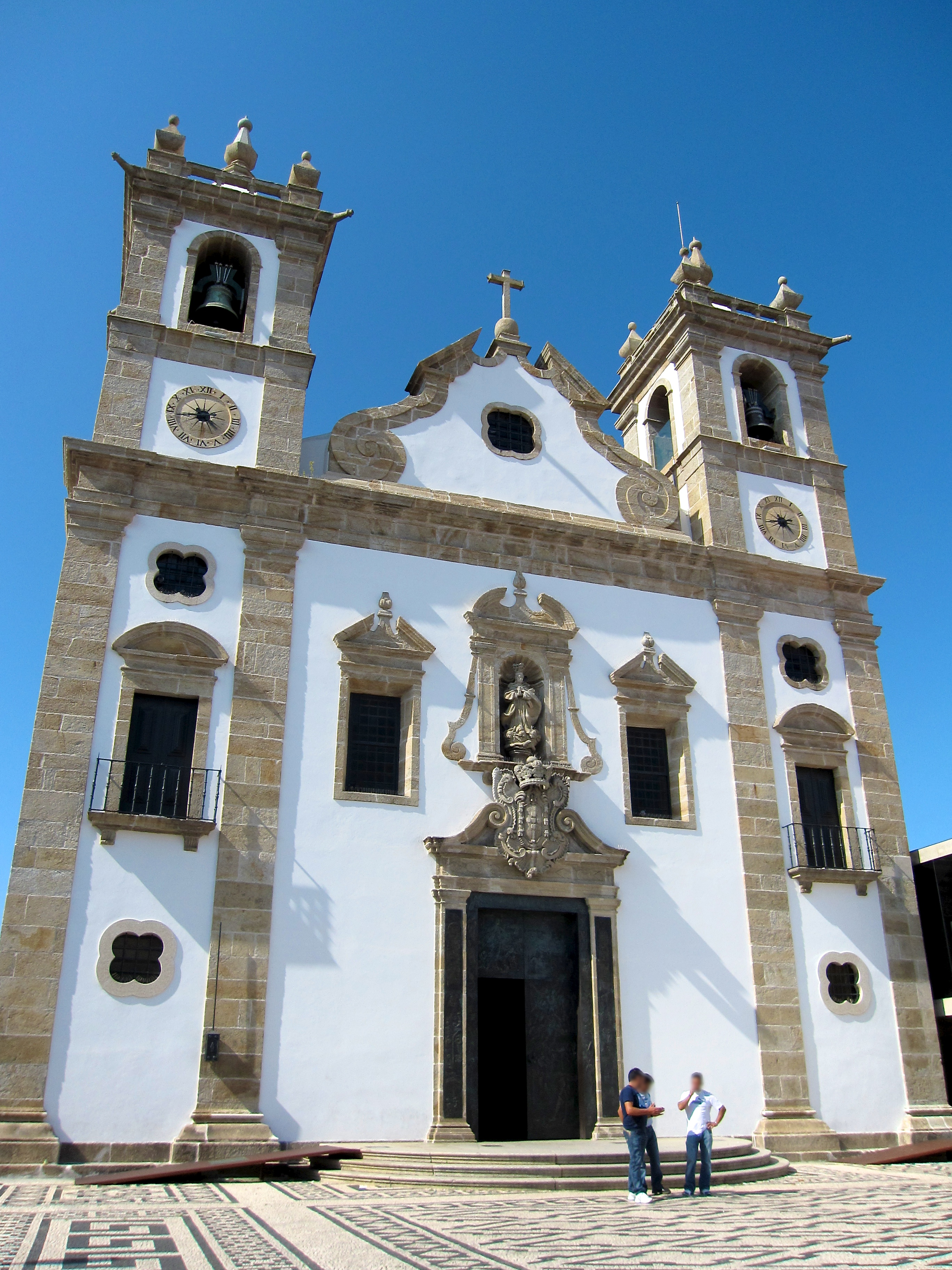 This file was uploaded for Wiki Loves Monuments in Portugal with the unique identifier 74564.